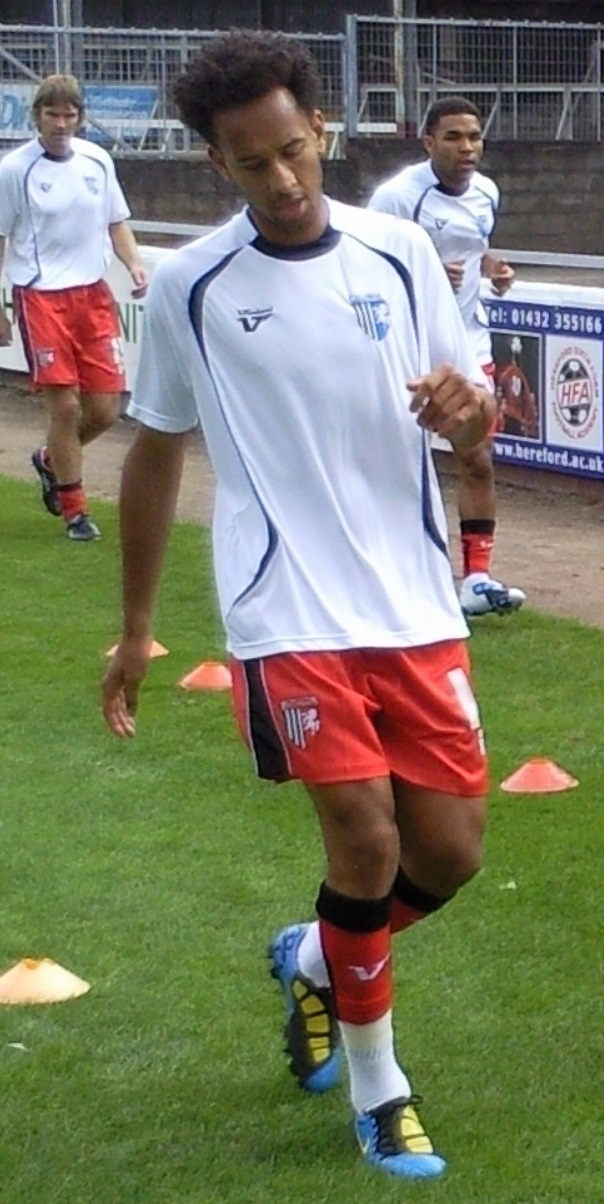 Josh Gowling photographed on 14 August 2010